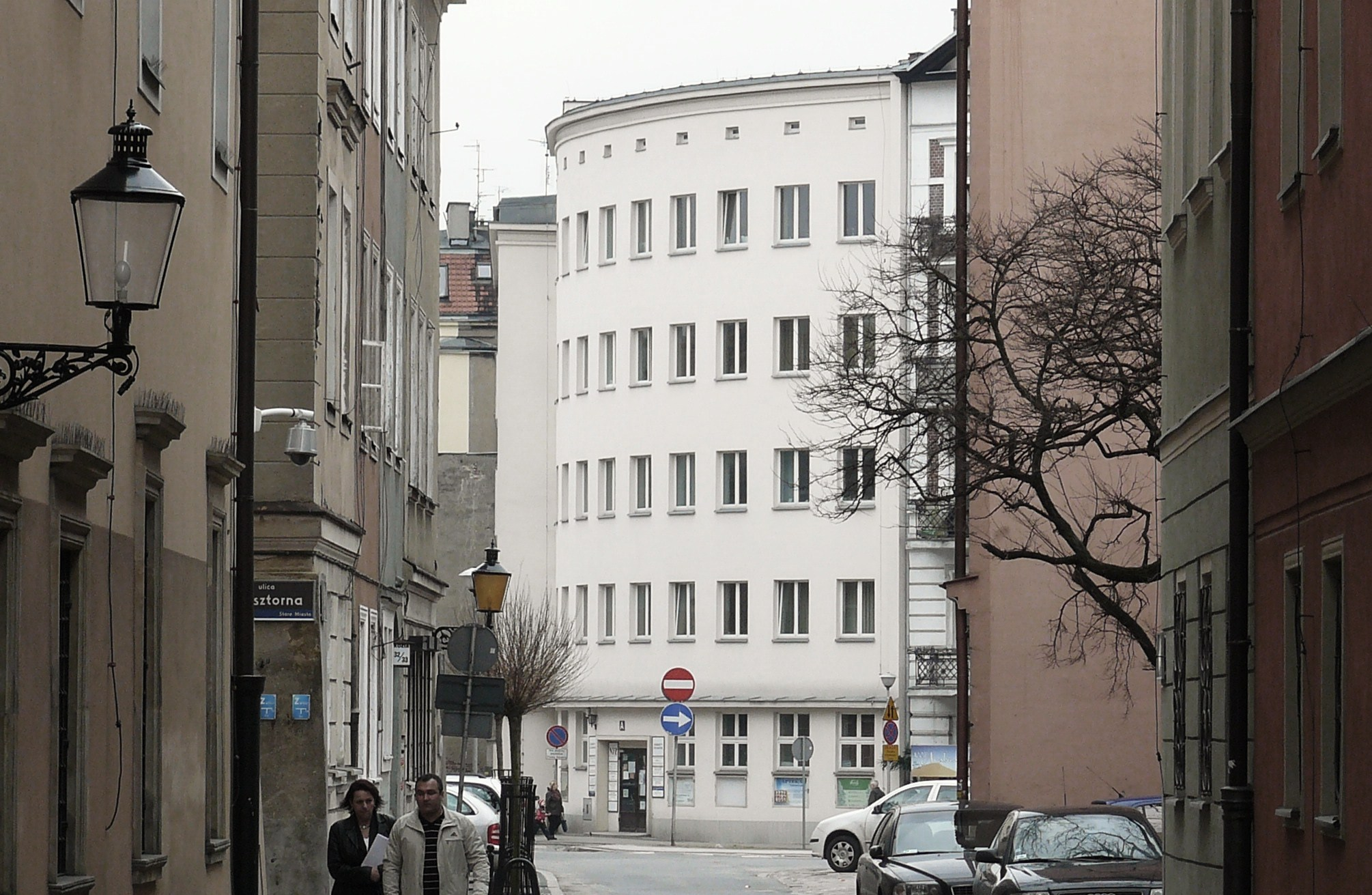 Poznan, Health Center from 1937.